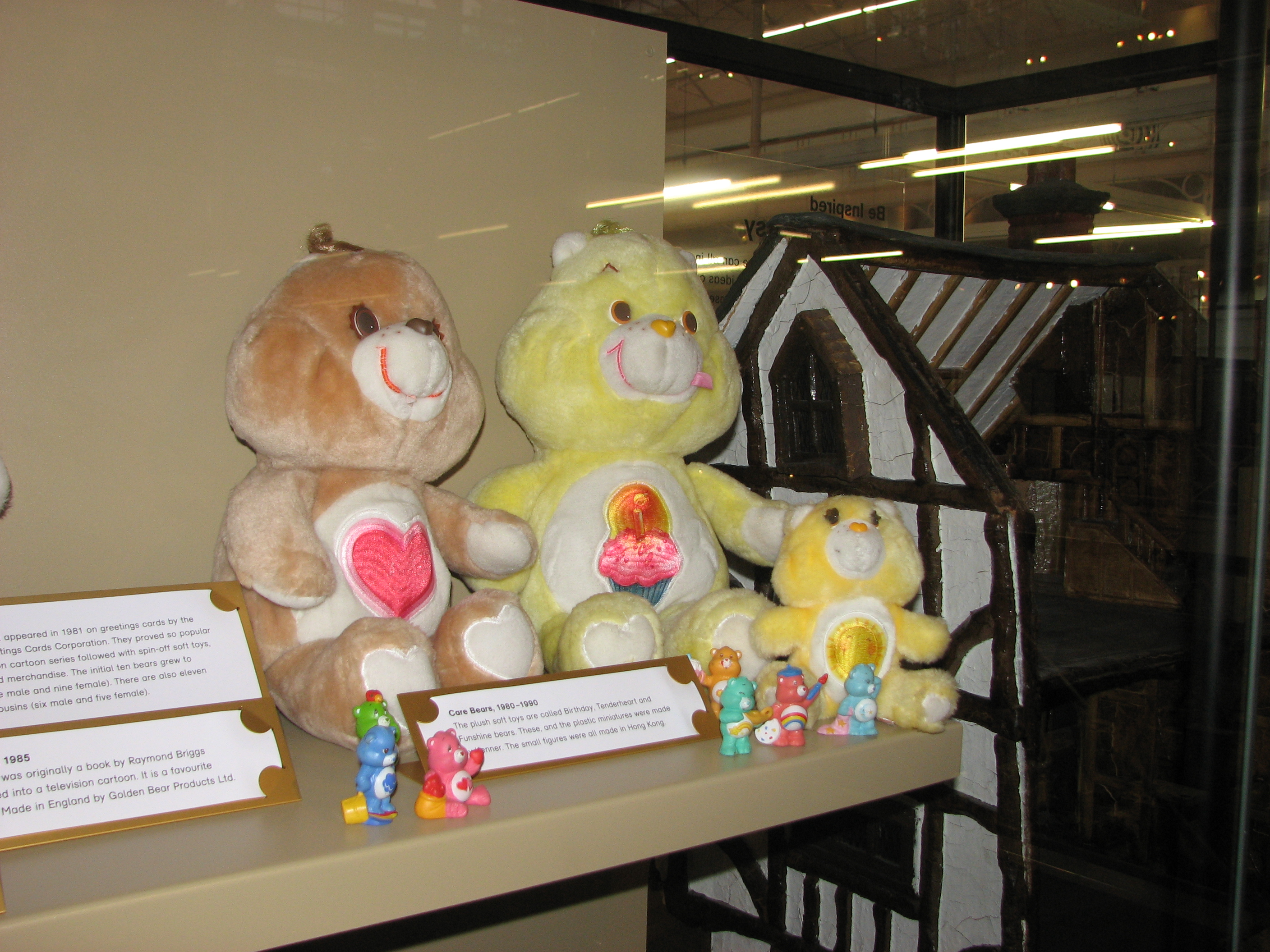 Childhood Museum - London - September 2008